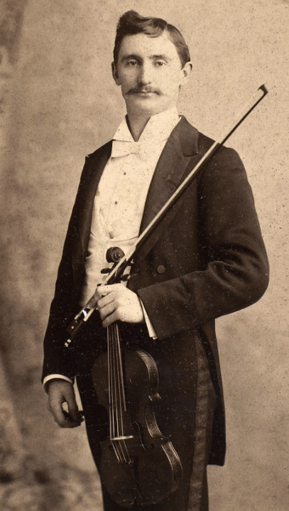 Portrait of violinist and recording pioneer Charles D'Almaine